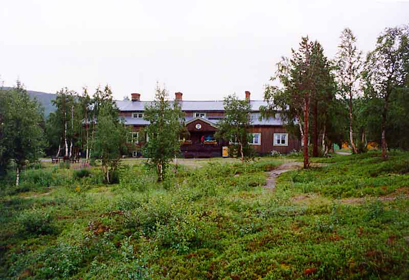 Saltoloukta mountain cabin (please correct me, I'm not sure what fjällstation is in english). Picture taken July 1998. Photo: Per-Anders Sjöström